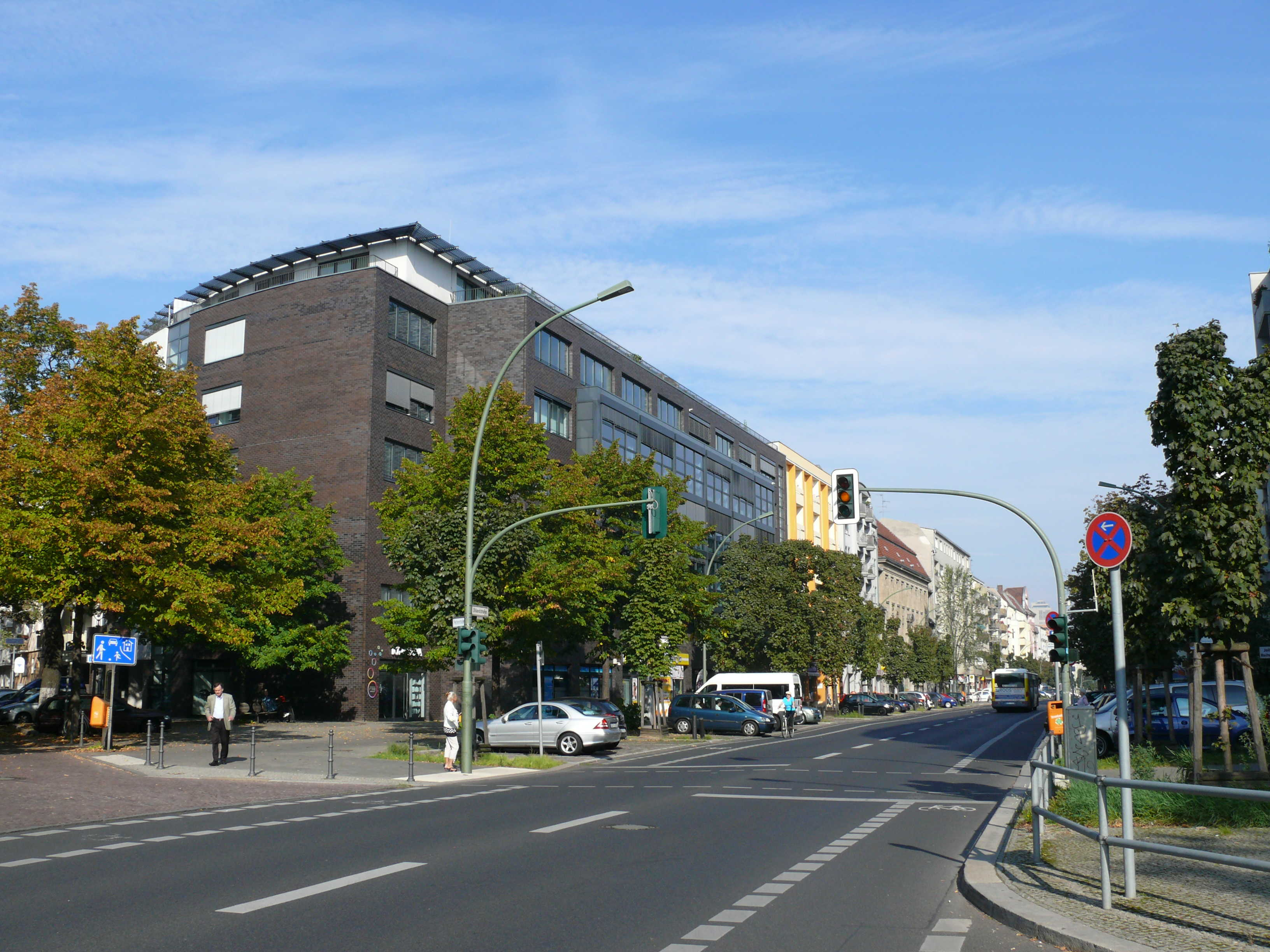 Berlin-Wilmersdorf Uhlandstraße